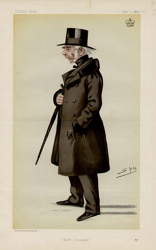 Caricature of Thomas Agar-Robartes. Caption read "East Cornwall".